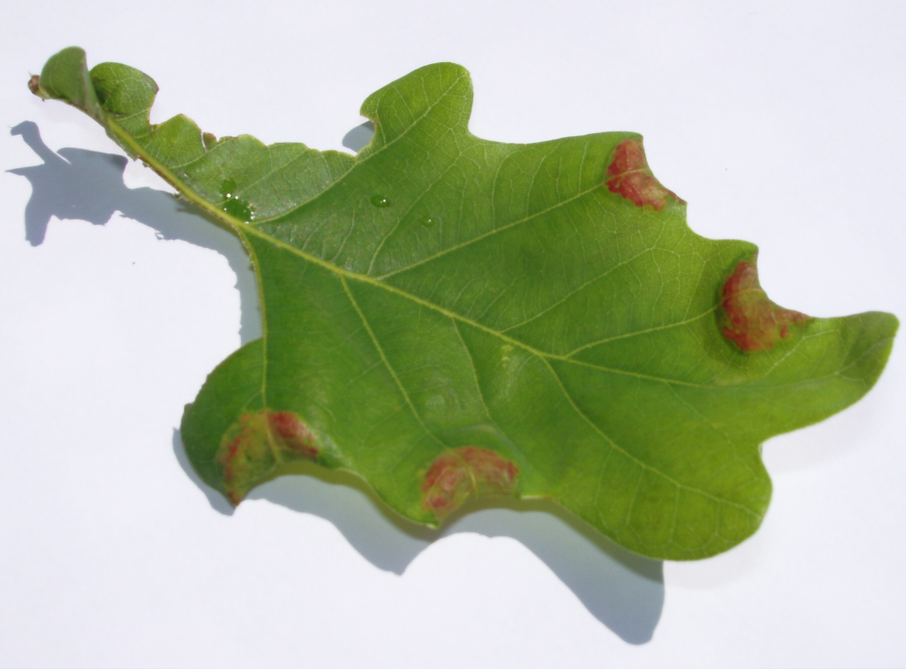 plant galls of Macrodiplosis dryobia on an oak tree